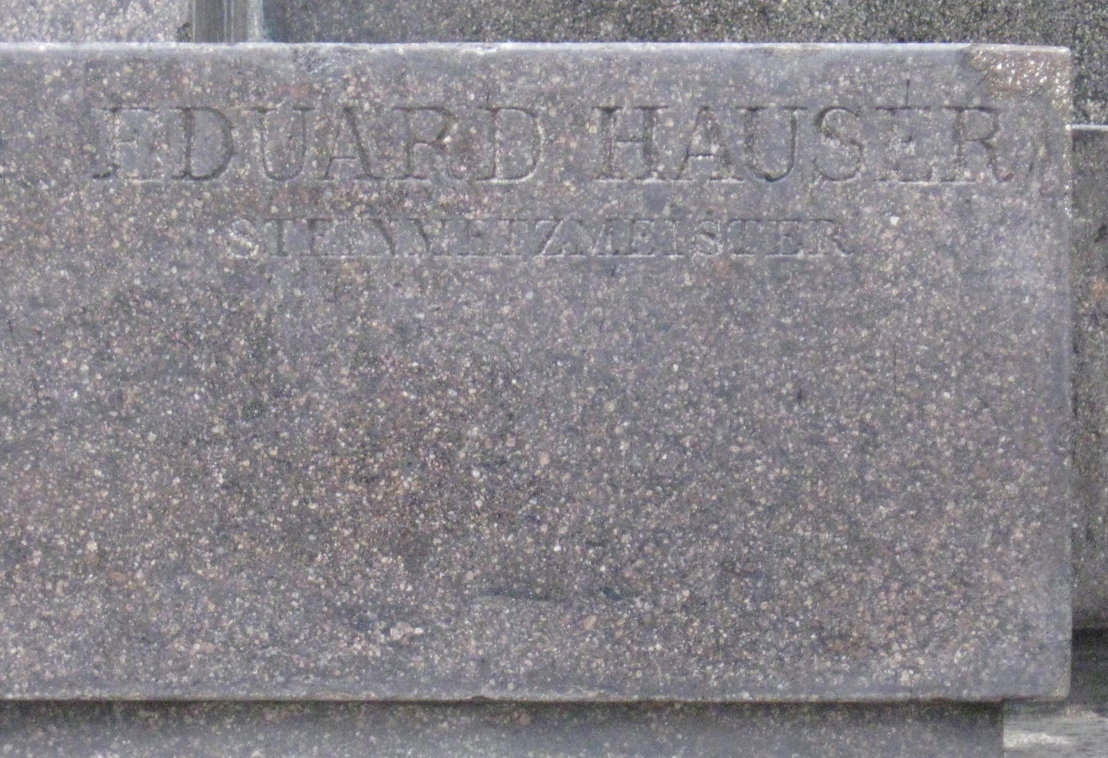 Vienna, Beethoven monument, inscription of the stonemason Eduard Hauser